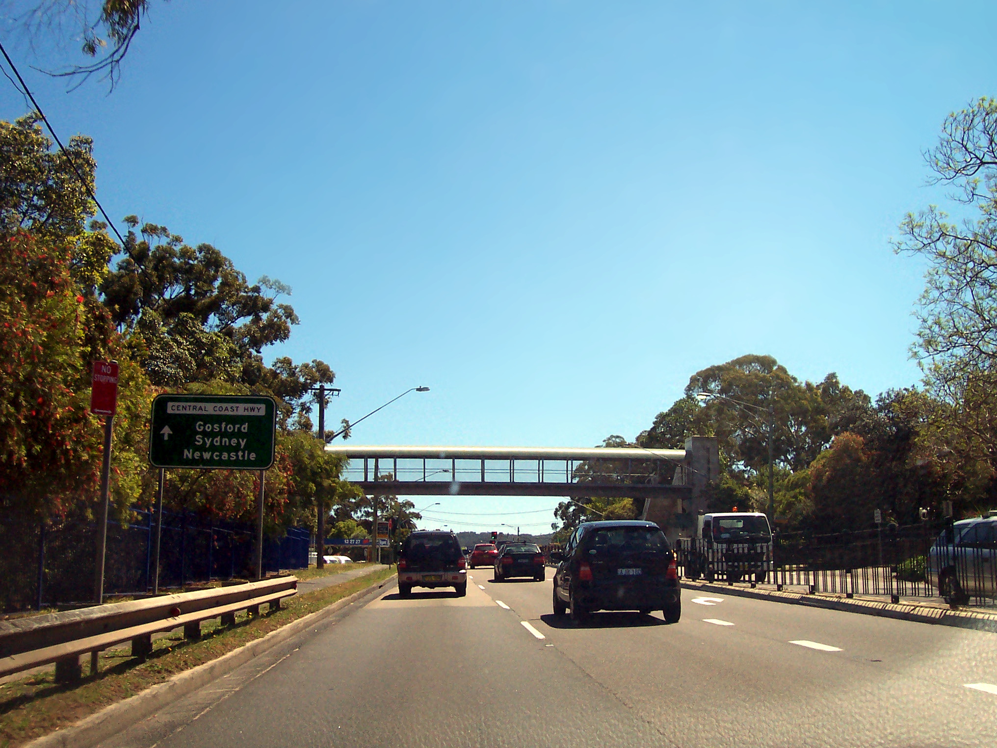 Central Coast Highway @ East Gosford. Pedestrian Bridge in Background